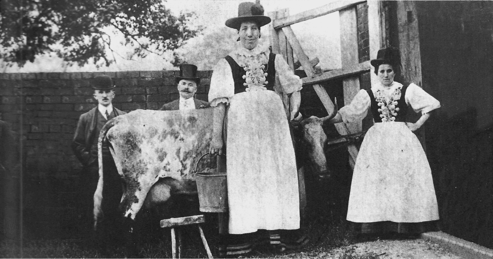 Maria Fassnauer